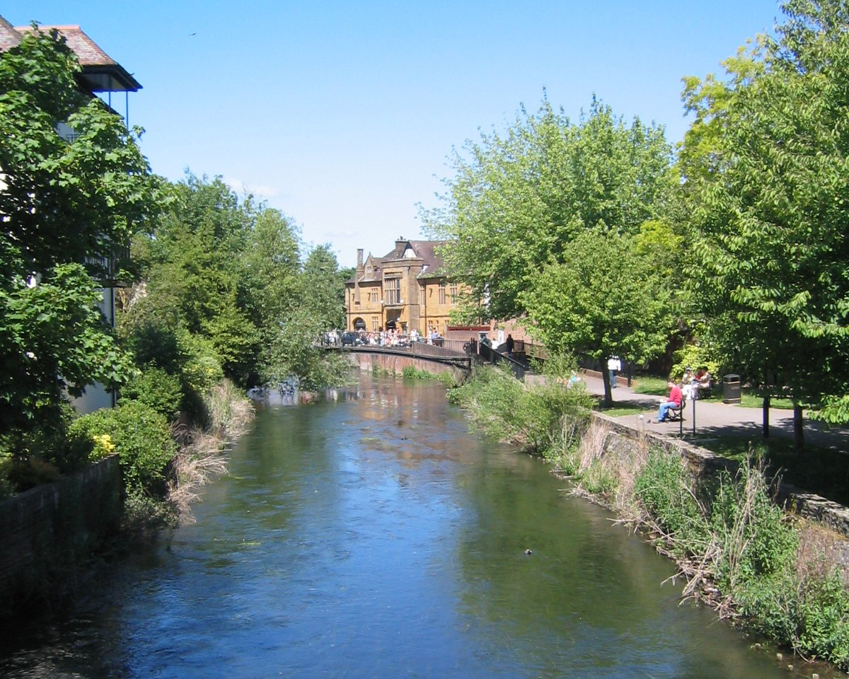 The River Avon in Salisbury, Wiltshire, UK. Photo taken by me 2005-06-18.